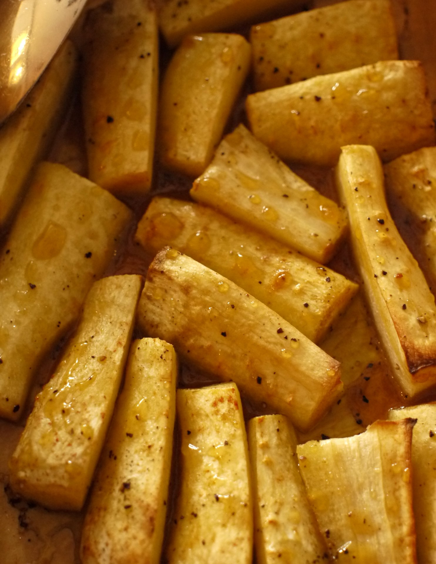 Oven baked parsnip with honey and mustard